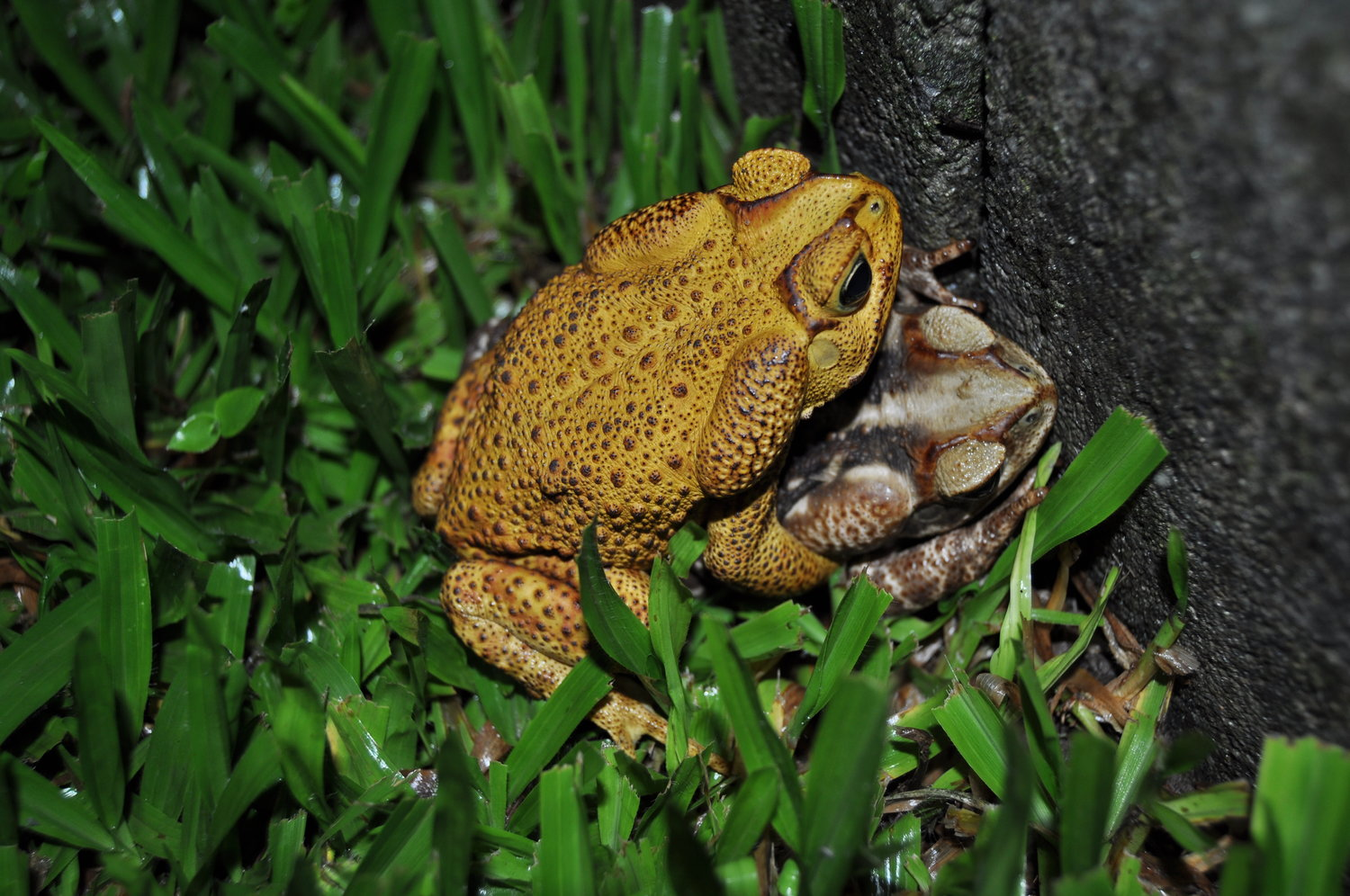 Amplexus of a couple of Rhinella icterica in São Paulo, Brazil